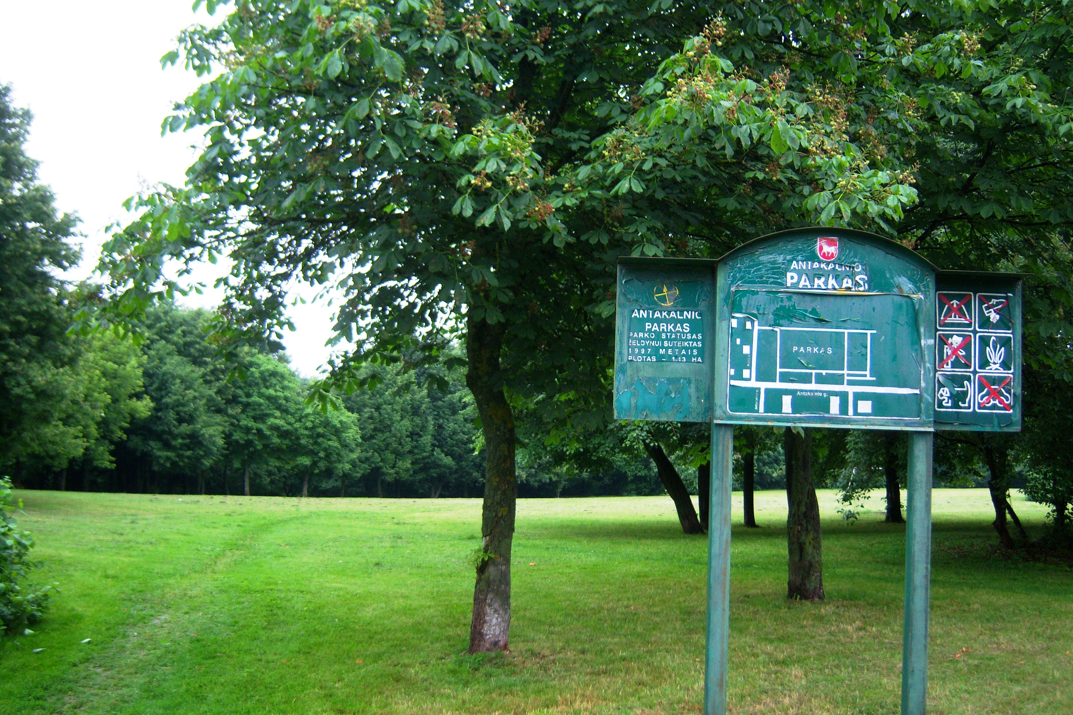 Antakalnio park, Aleksotas, Kaunas, Lithuania